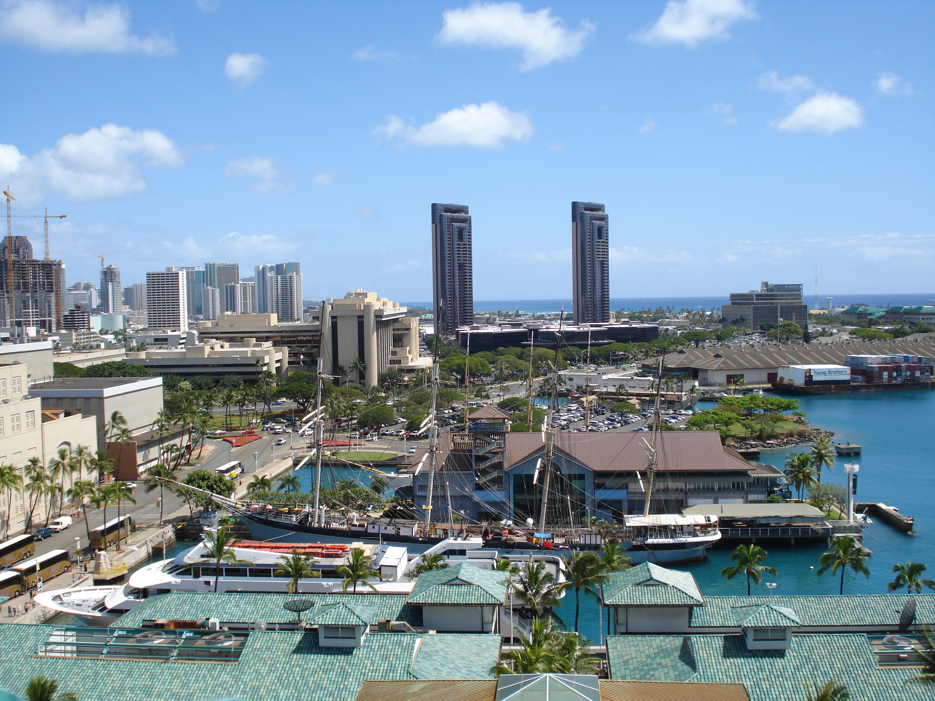 View east from the top of Aloha Tower, Falls of Clyde and Hawaii Maritime Center can be seen in center and One Waterfront Towers in the background.